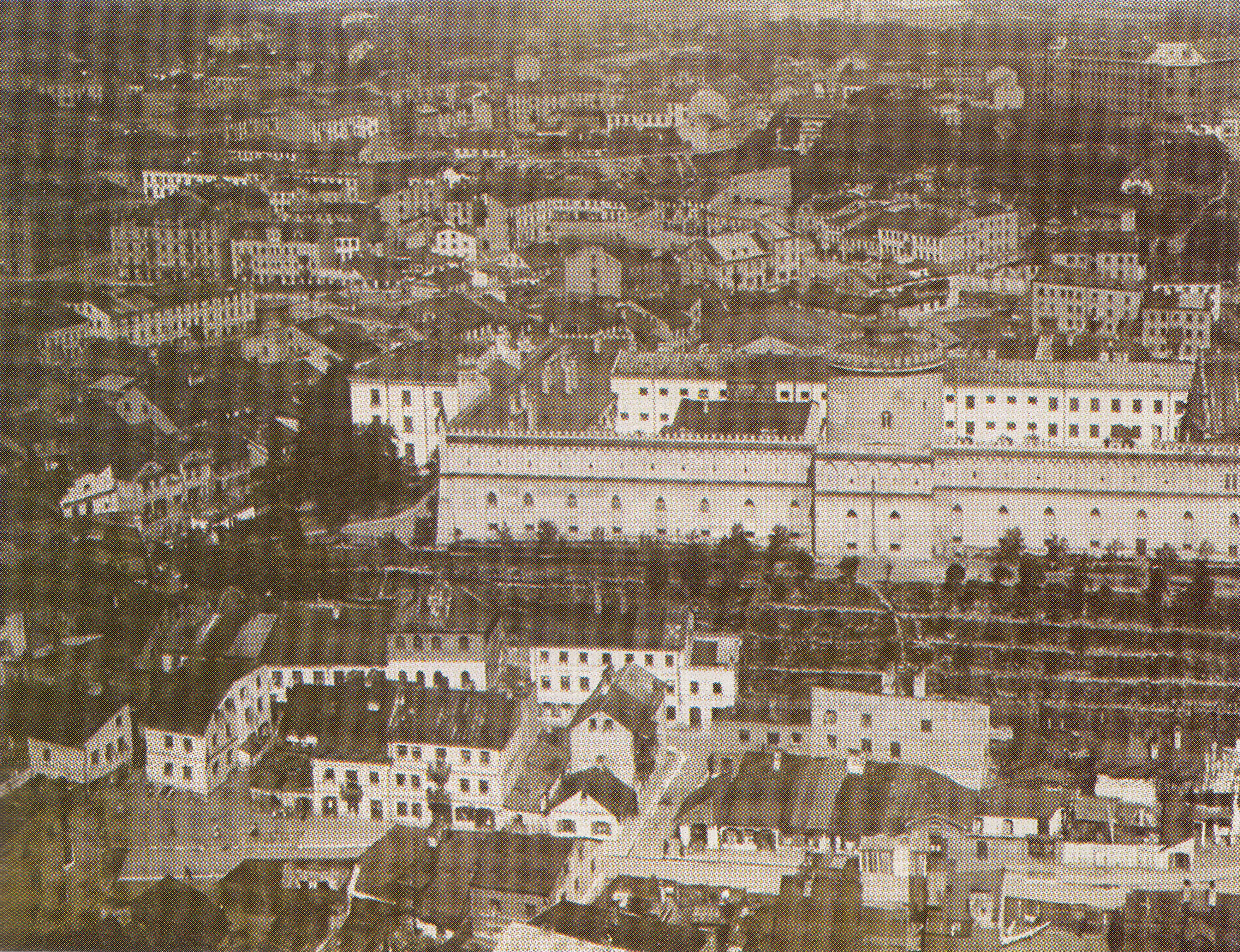 Jewish Quarter in Lublin Poland